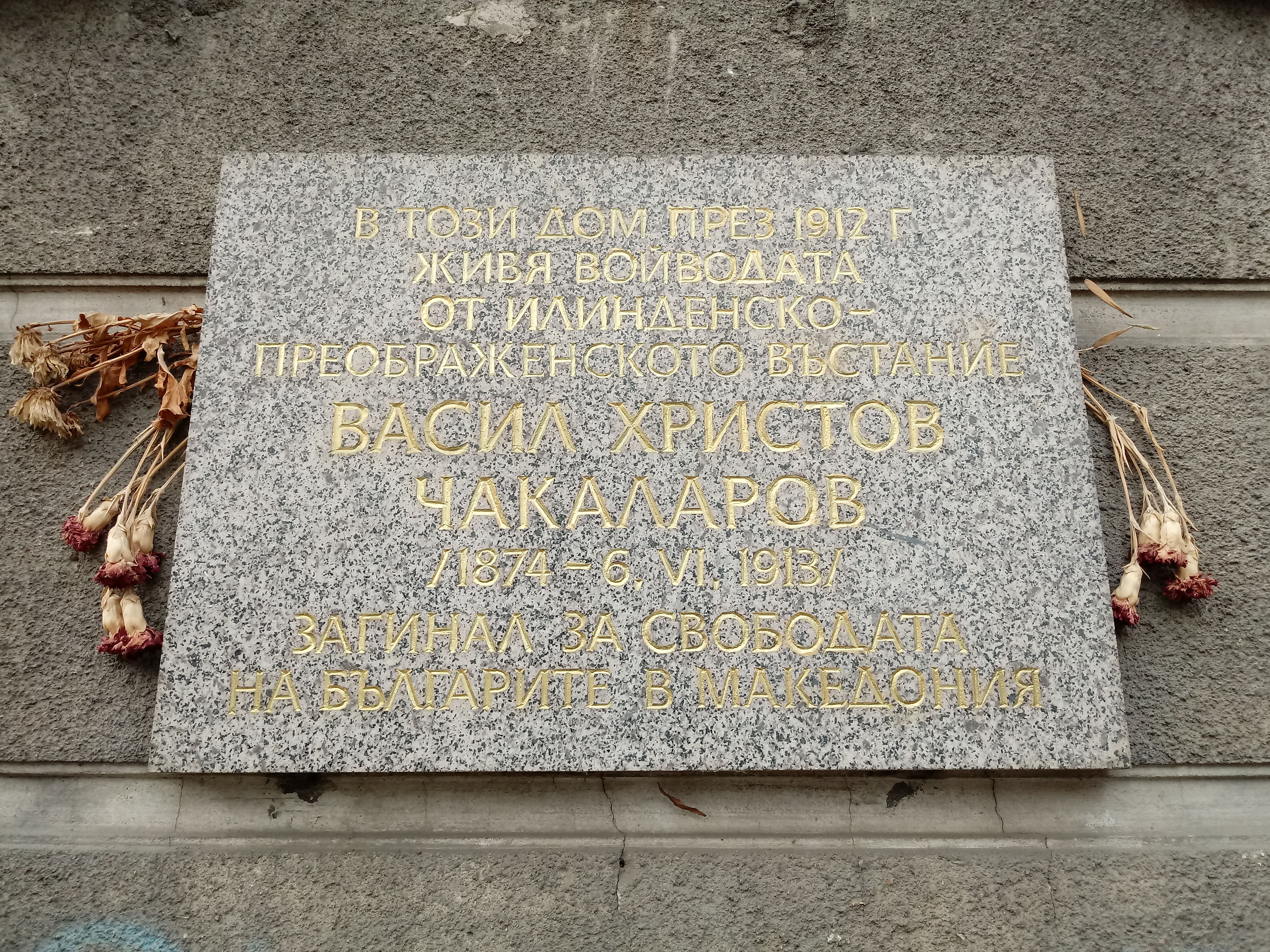 Vasil Chakalarov memorial plaque, 52B Shipka Str., Sofia